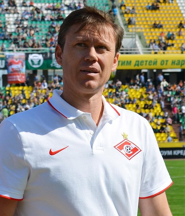 Igor Lediakhov with FC Spartak Moscow.